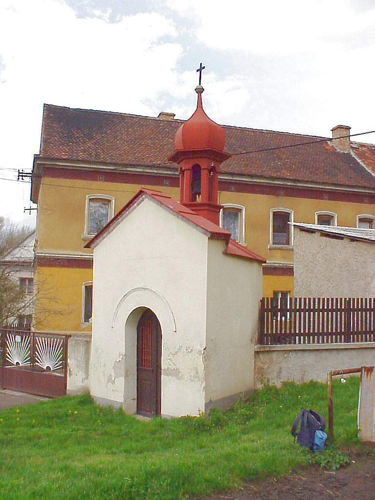 Chapel in Habrovany, Ústí nad Labem District, Czech Republic.